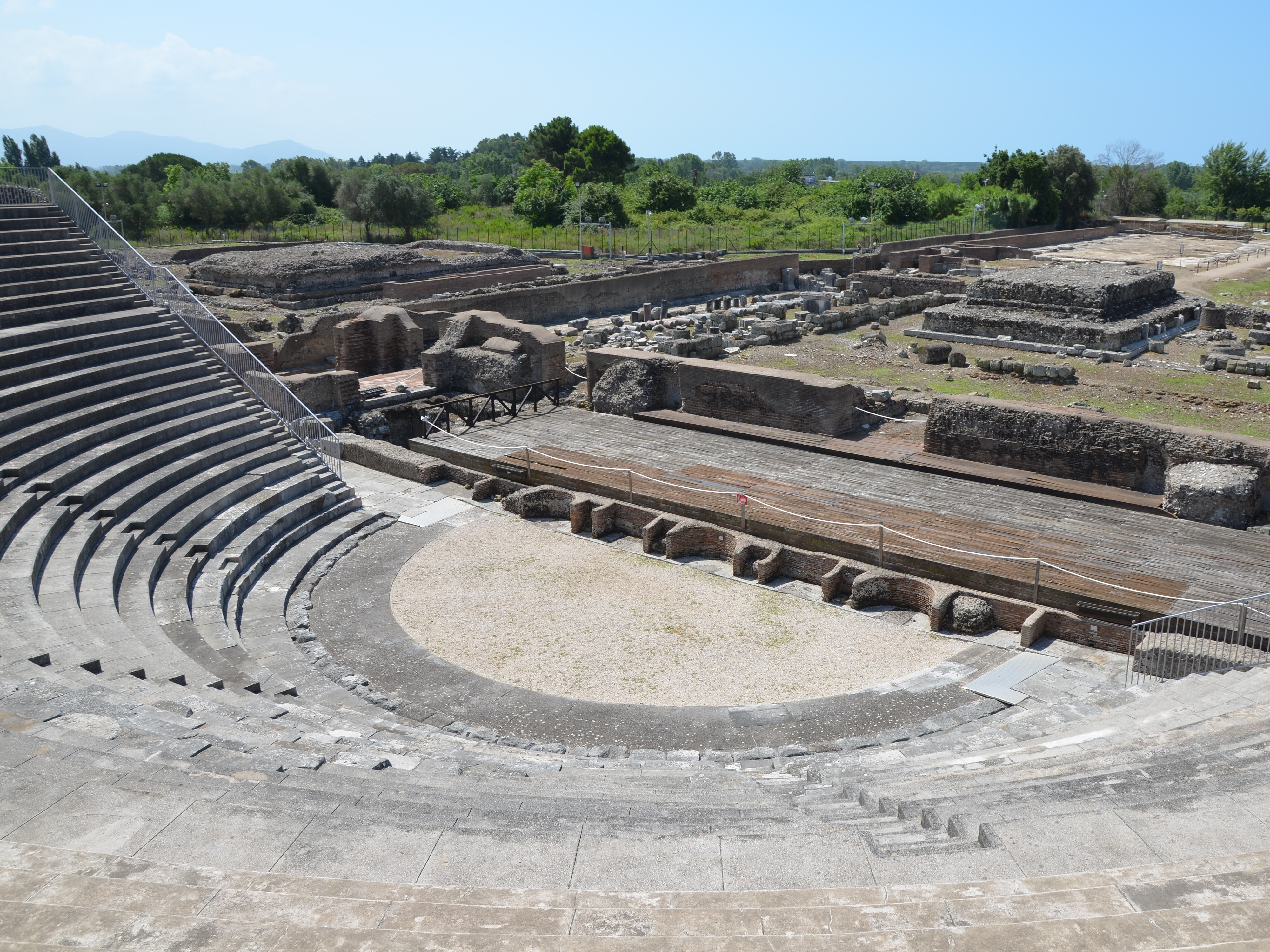 The Roman theatre, view on the temples and Republican & Imperial forums, Minturnae, Minturno, Italy